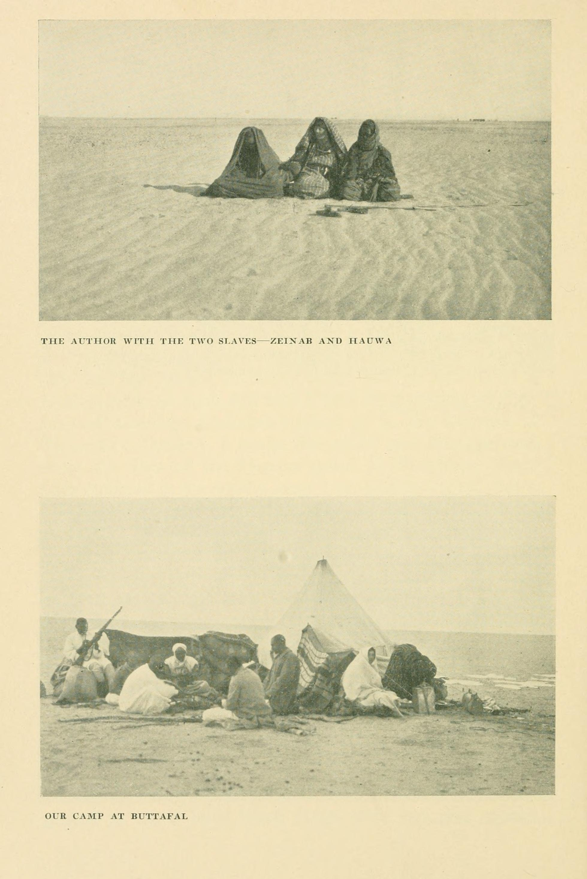 The secret of the Sahara : Kufara / by Rosita Forbes ; with an introduction by Sir Harry Johnston, with 54 illustrations from photographs by the author, and a map.